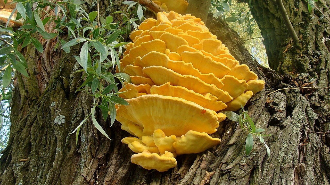 crab-of-the-wood on the Salix fragilis at Hesperia Park in Töölö in Helsinki, Finland